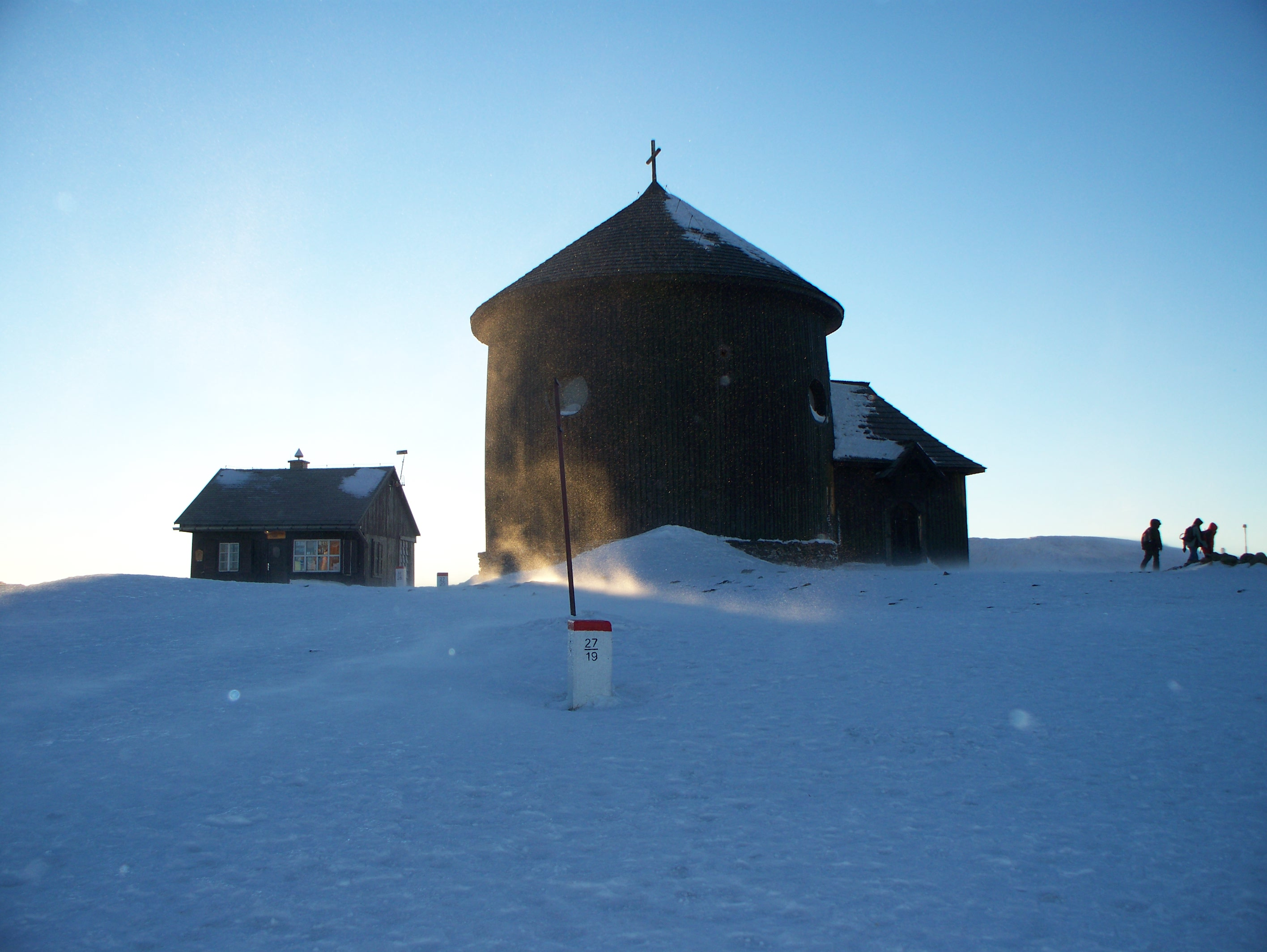 Saint Lawrence Chapel on Sniezka. Karkonosze Winter 2007. Also in the picture are Czech-Polish boundary stones (nearest to furthest) 27/19, 27/20 and IV/28, which is located just before the chapel.